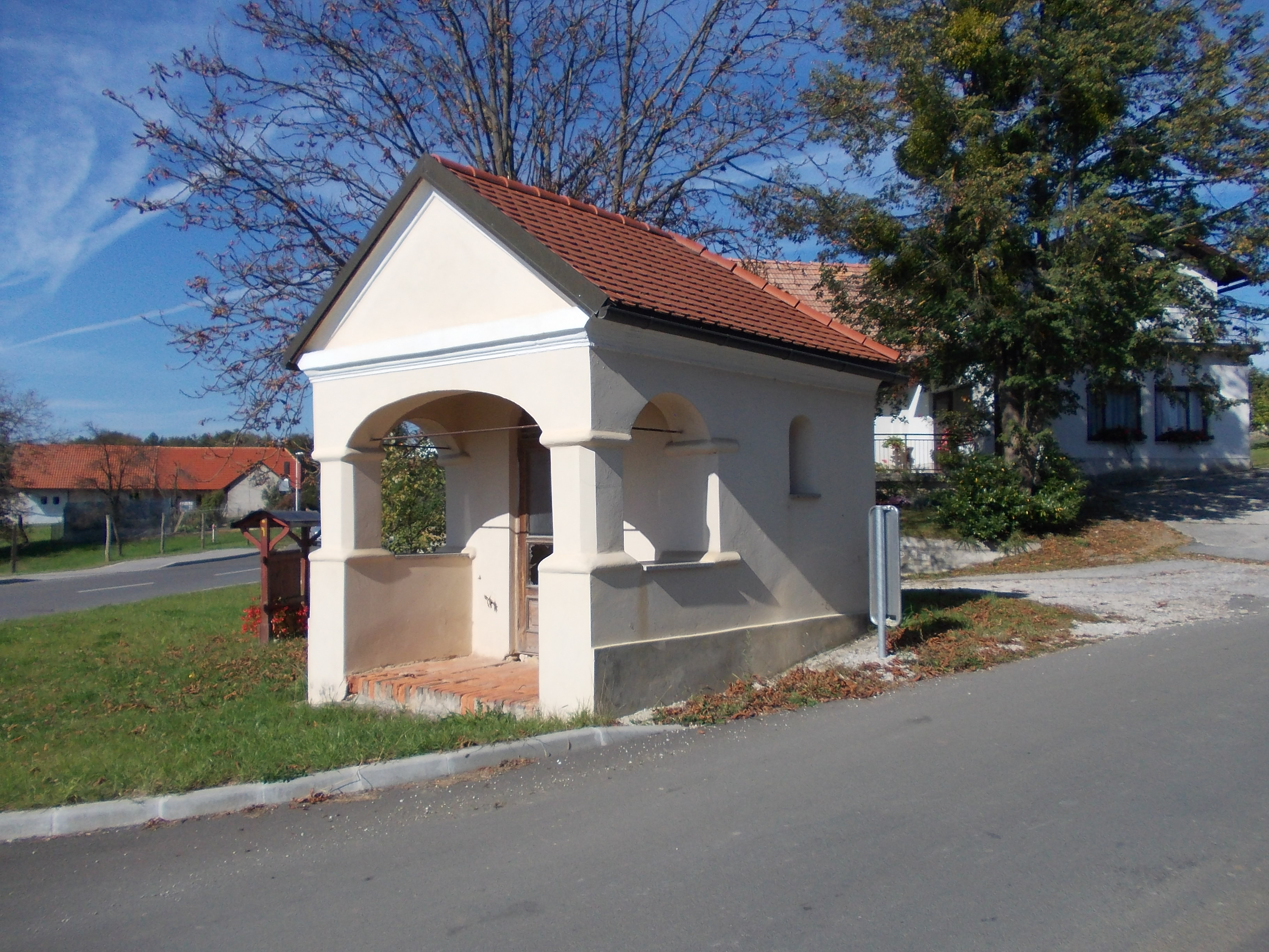 Zdole Chapel